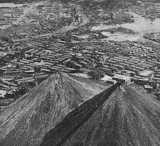 Botayama(Slag heap) at Iizuka City in 1950s